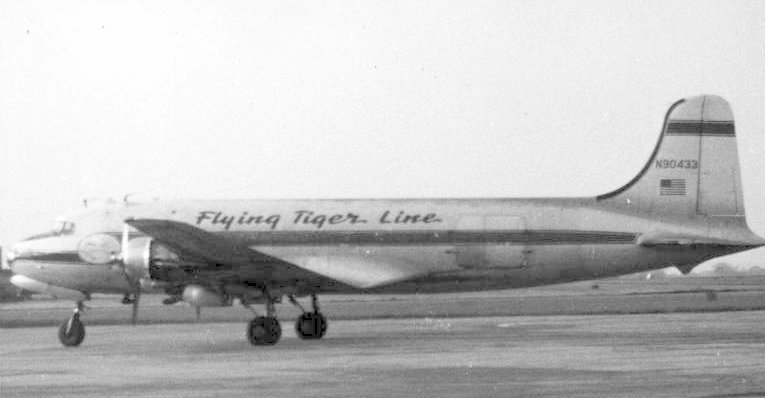 Douglas DC-4 (C-54A) Skymaster of Flying Tiger Line (USA) at Manchester Airport, England